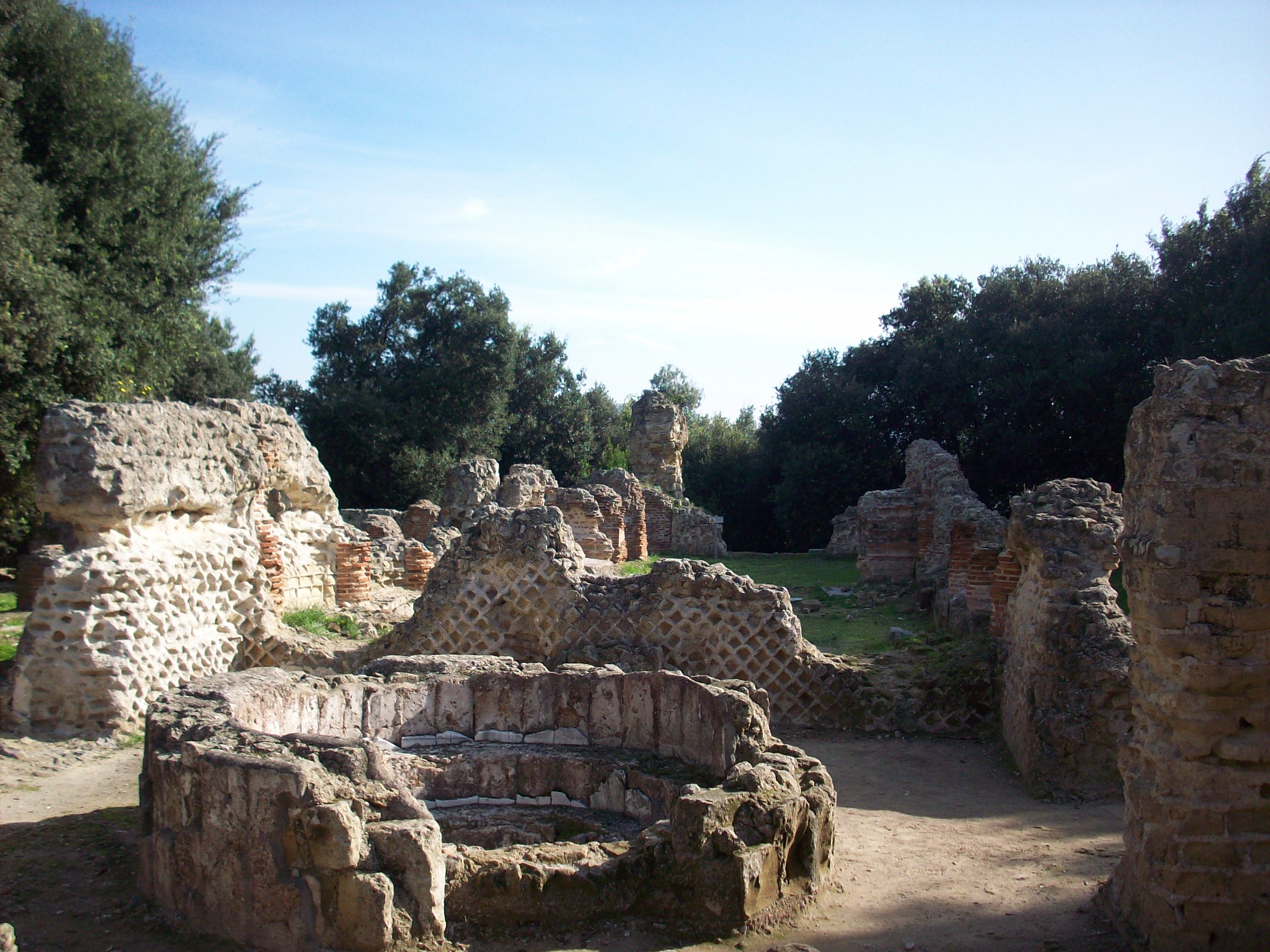 Baptistry in the Temple of Jupiter in Cuma. Near Naples, Italy.